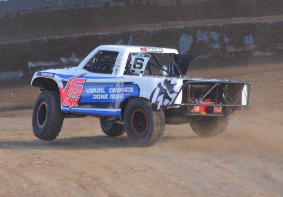 The Stadium Super Trucks vehicle of Justin Lofton.